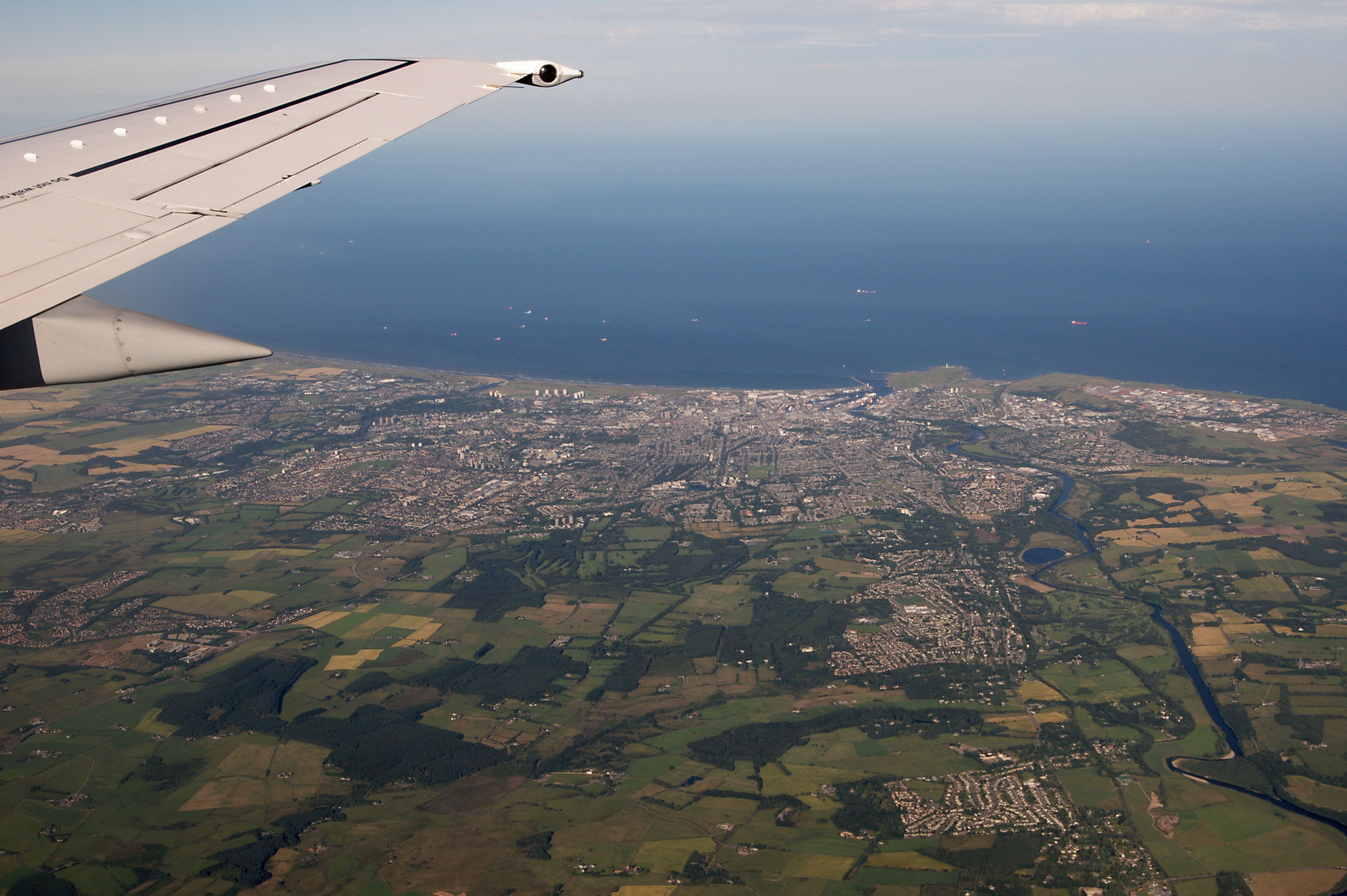 Landing approach to Aberdeen